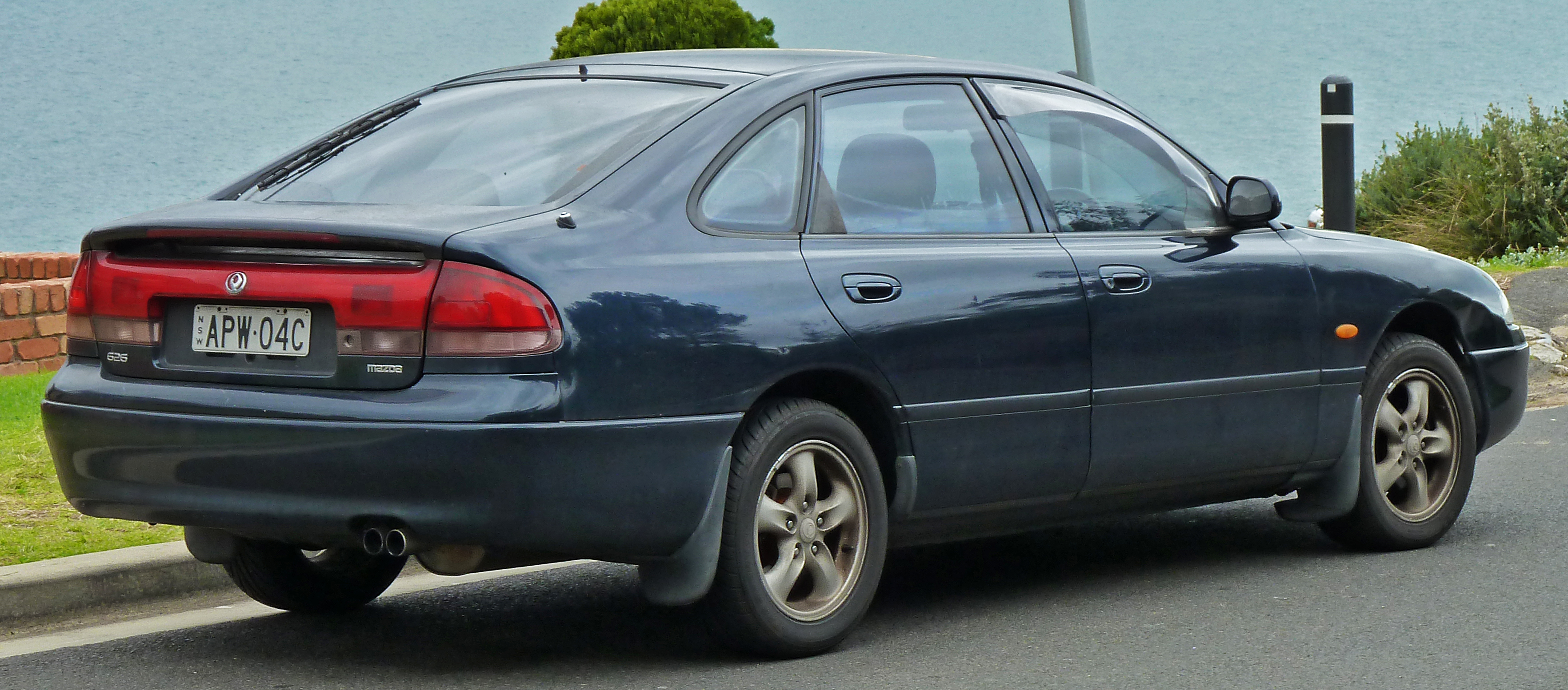 1996 Mazda 626 (GE Series 2) SDX V6 hatchback. Photographed in Cronulla, New South Wales, Australia.